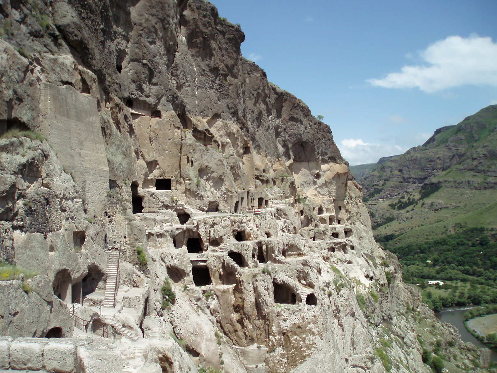 Vardzia